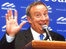 Mike Gallagher speaking